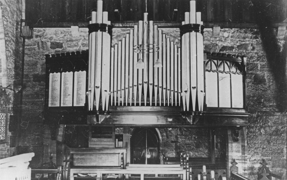 Organ in the second St Marks Church of England Warwick